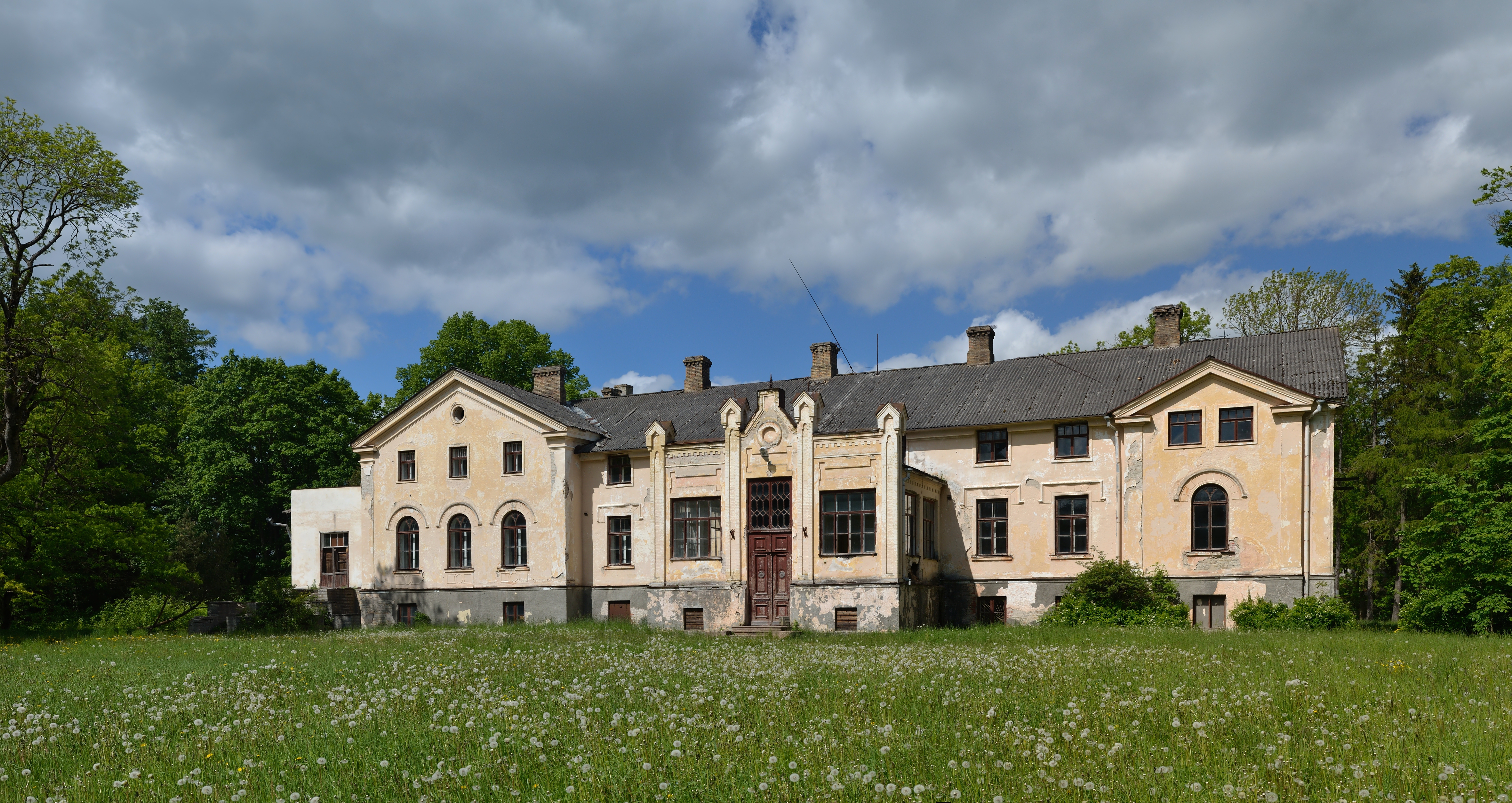 Arkna manor main building, built ca 1880.